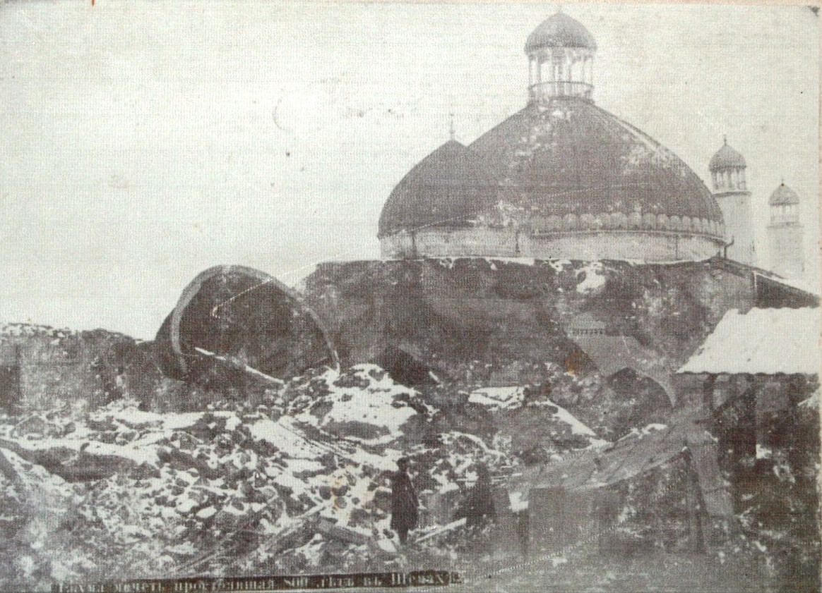 Shemakha Juma Mosque after 1902 earthquake